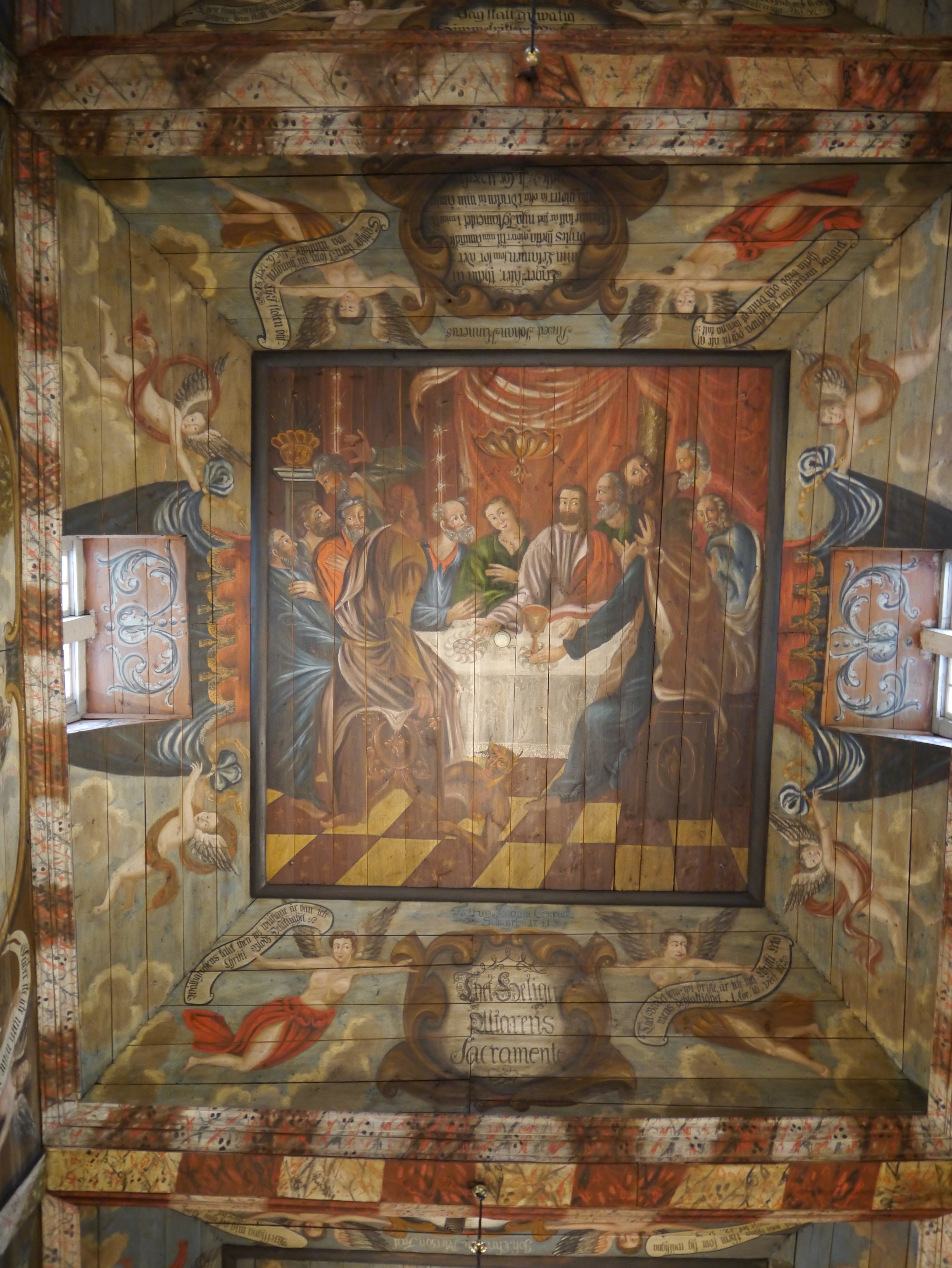 Ceiling of the Church, Habo, Jönköping Province, Southern Sweden."The Last Supper", painter Johan Kinnerus, 1741-43.